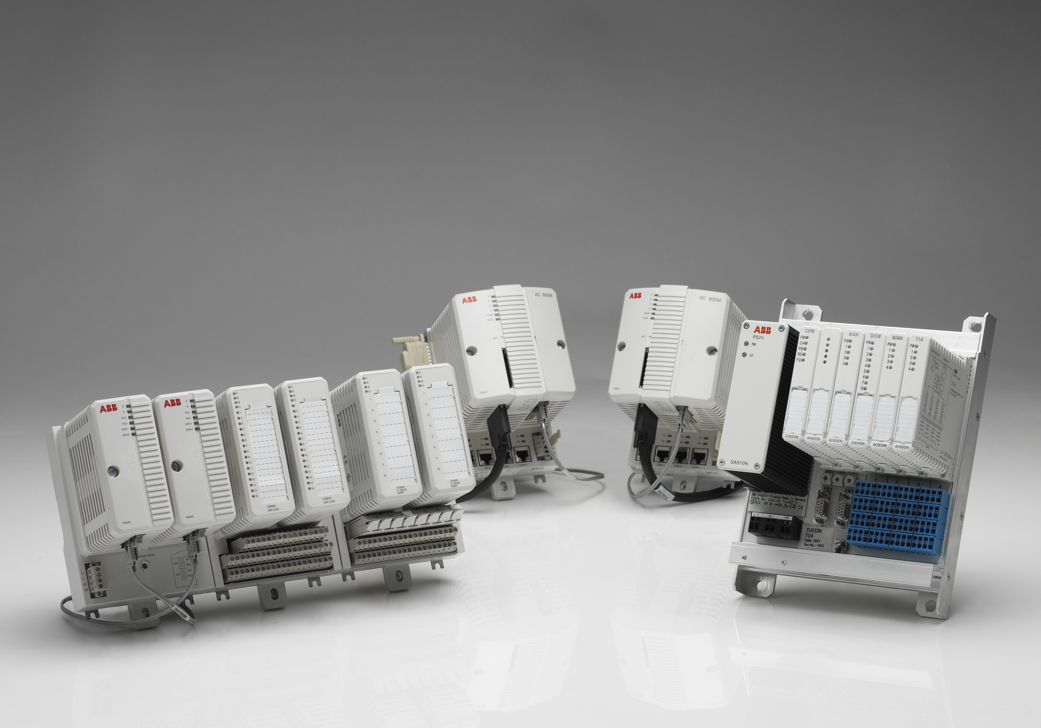 800xA I/O